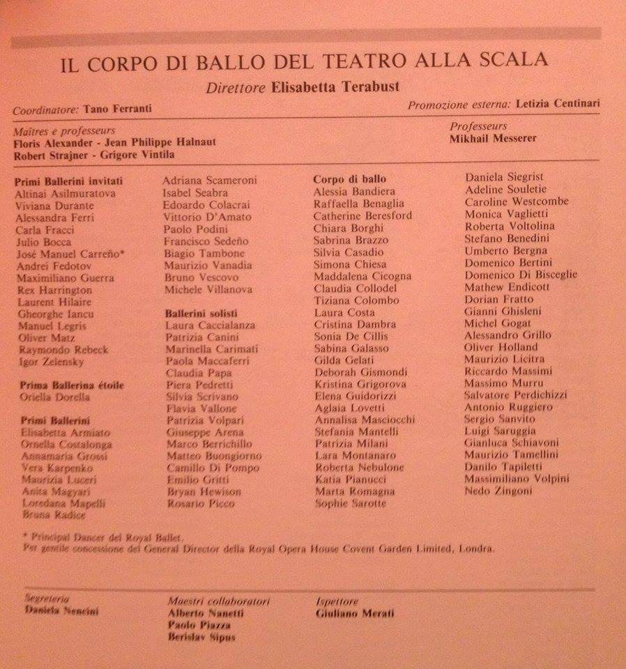 Program of ballet " Teatro alla Scala di Milano" of the show of Tuesday December 14th, 1993. Show "The nutcracker" version of R.Nureyev.